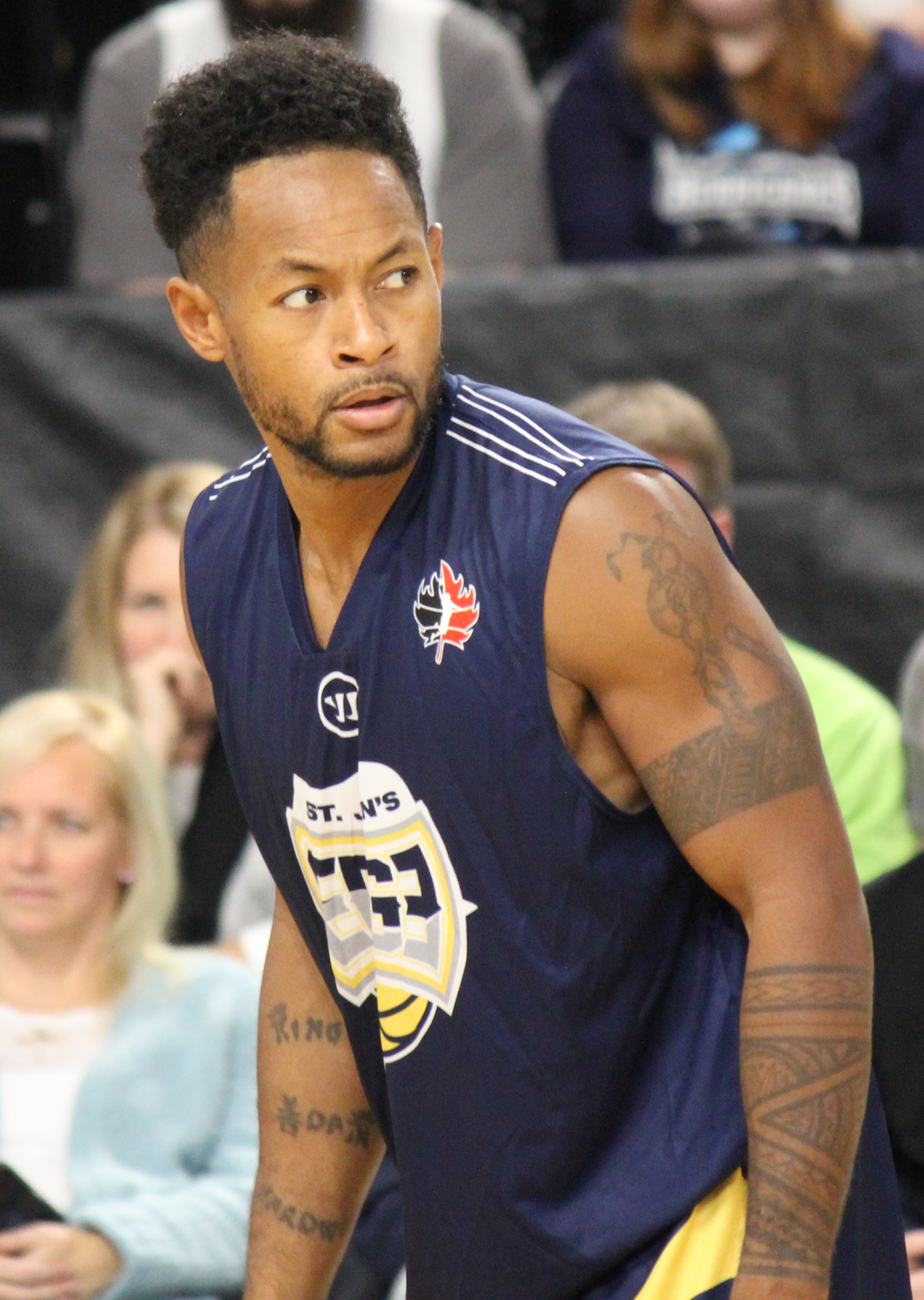 halifax